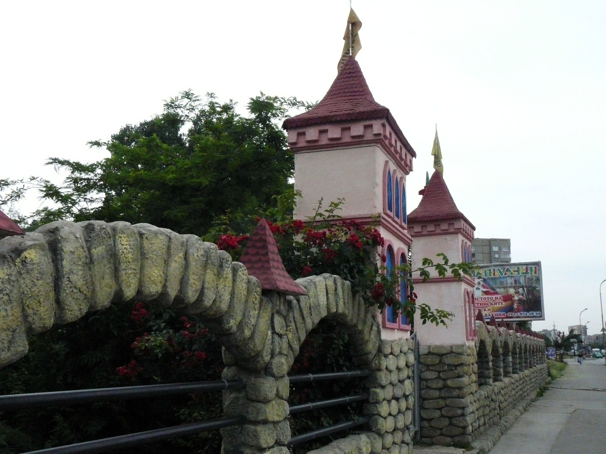 Mladost, Sofia